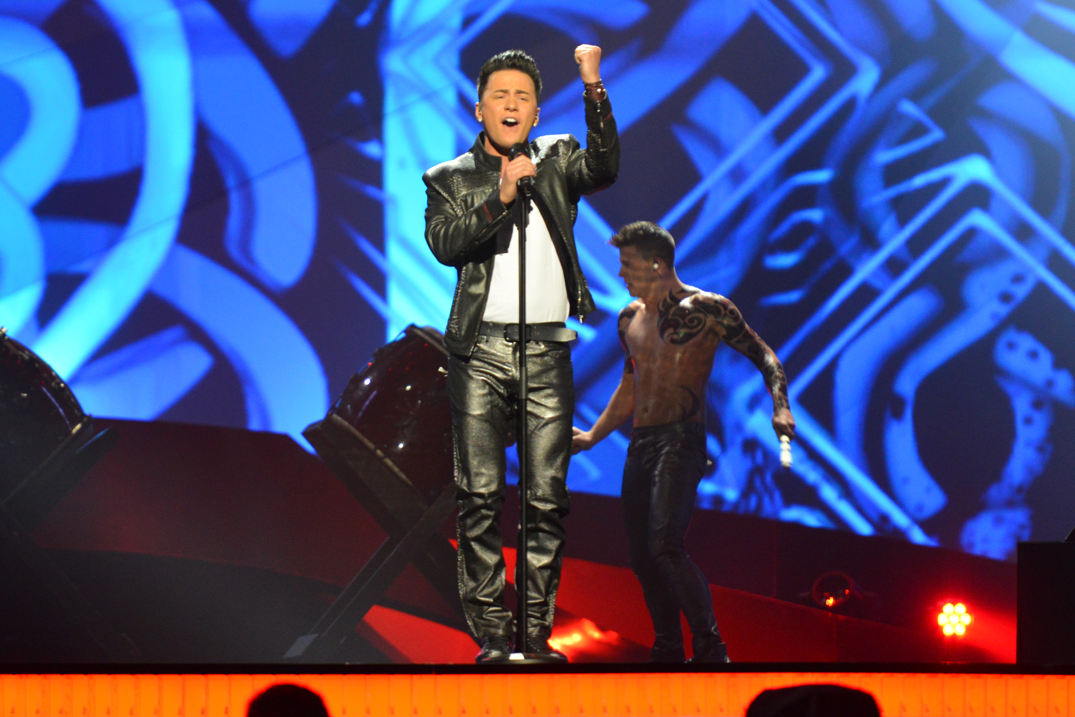 Ryan Dolan representing Ireland with the song "Only Love Survives" during the first dress rehearsal of the first semi final of the Eurovision Song Contest 2013 in Malmö. (Help translate this text)